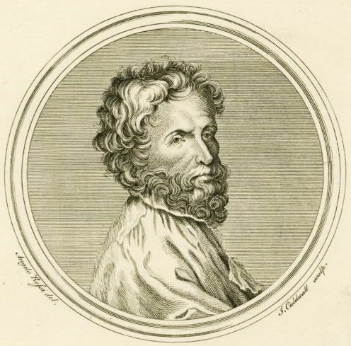 Spanish composer Cristóbal de Morales (ca. 1500-1553) by James Caldwall (1739-1822) after an engraving by Angelo Rossi (??-??) in Andrea Adami's Osservazioni per ben regolare il coro dei cantori della Cappella pontificia. Catalogo de' nomi, cognomi, e patria de i cantori pontifici (Rome, 1711).